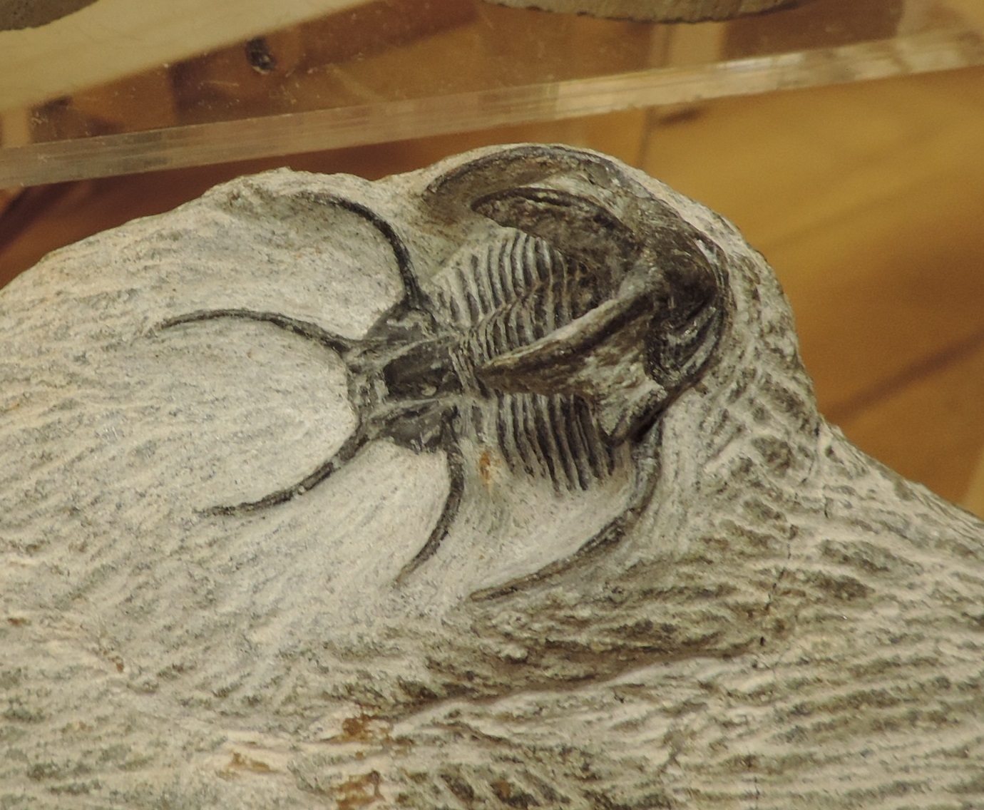 Fossil of Cyphaspis from Devonian, found in Morocco. Fossil exhibition of "Paleontology for amateurs in Bulgaria" in the Regional Museum of Natural History in Plovdiv, Bulgaria.